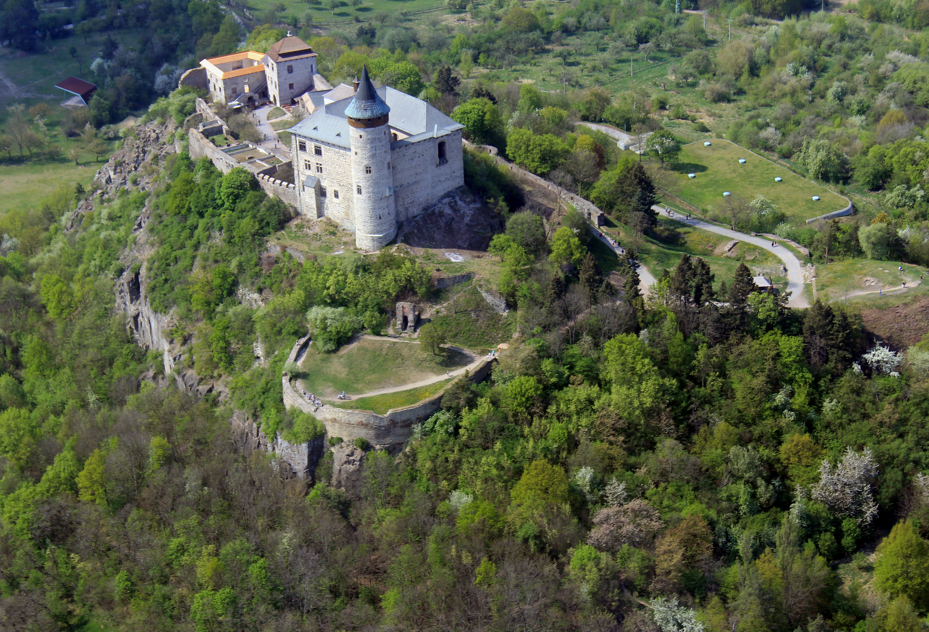 Castle Kunětice Mountain Castle on hill Kunětice Mountain from air, eastern Bohemia, Czech Republic